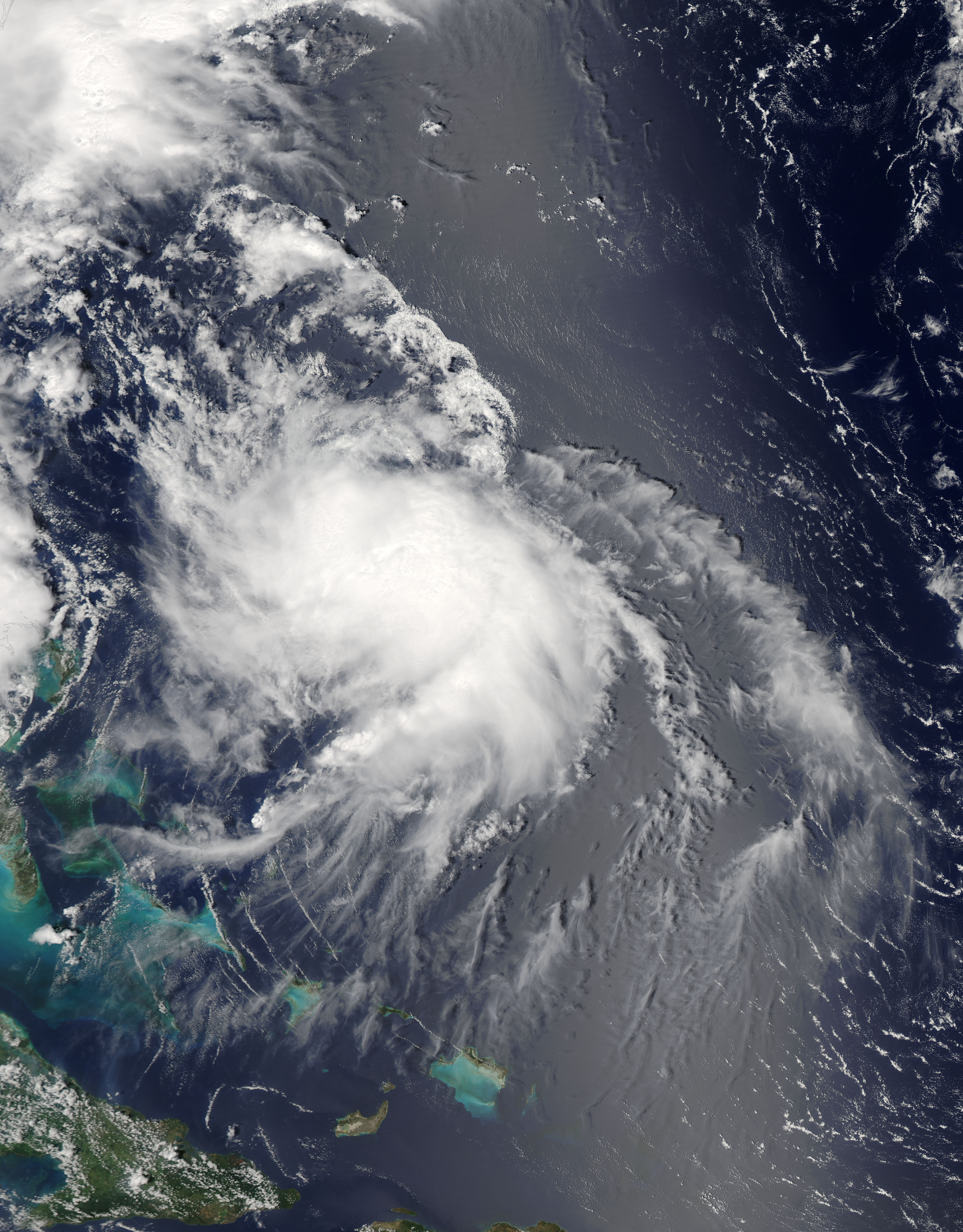 Hurricane Bertha (03L) off the Bahamas